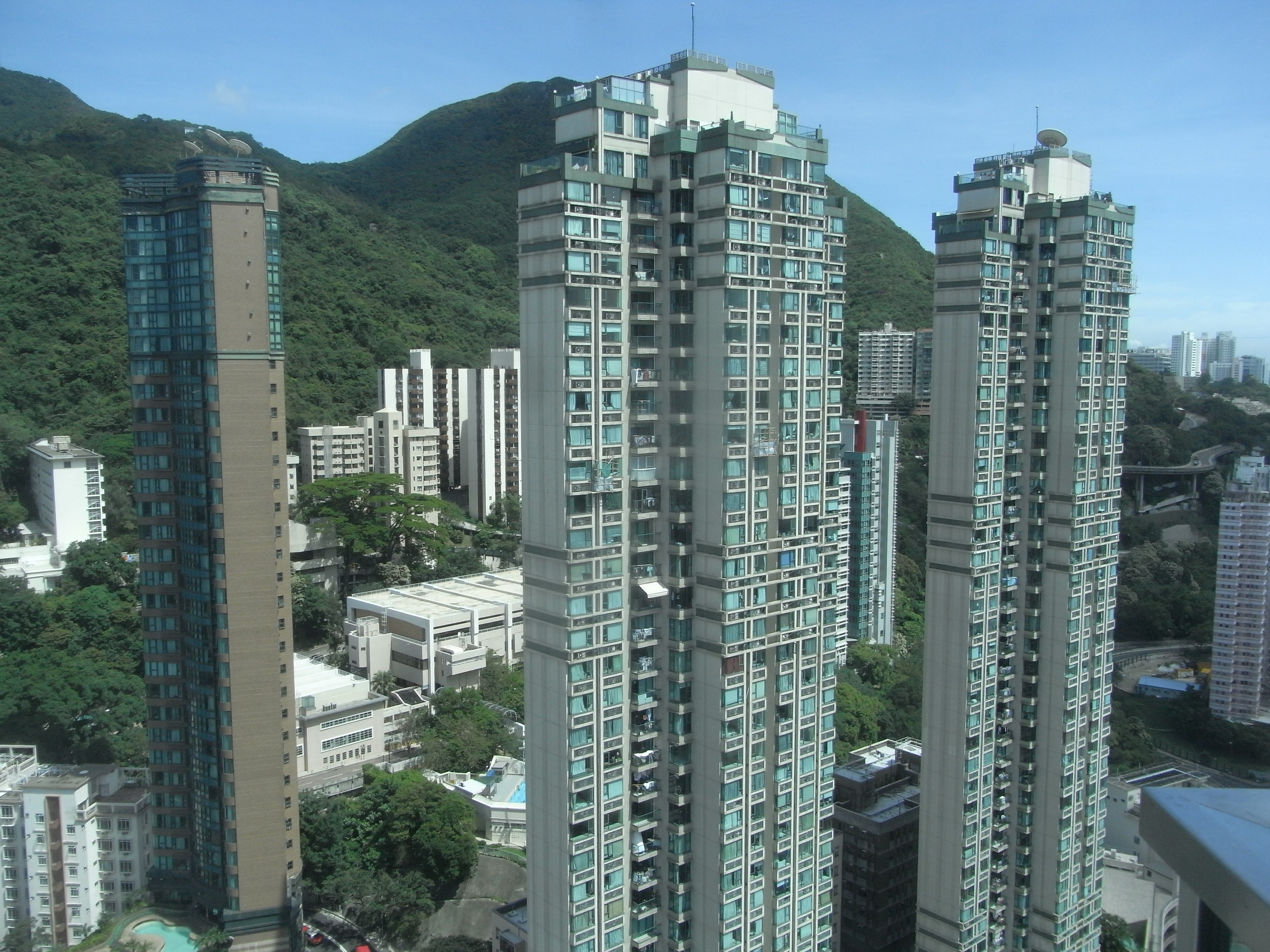 堅尼地城寶雅山